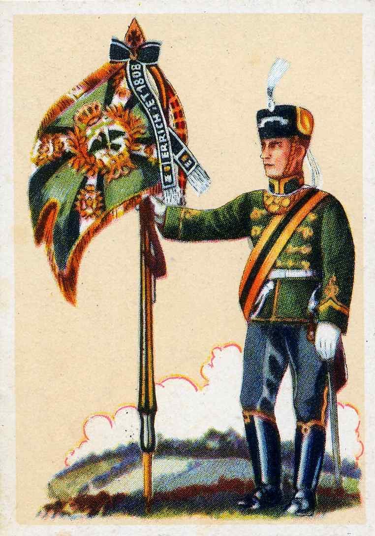 Regimental Colour of the royal prussian 6th Regiment of Hussars (2nd Silesian)